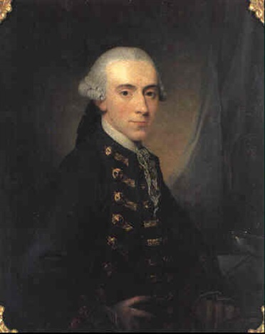 Jean de Coninck (1744-1807), Dutch-Danish businessman